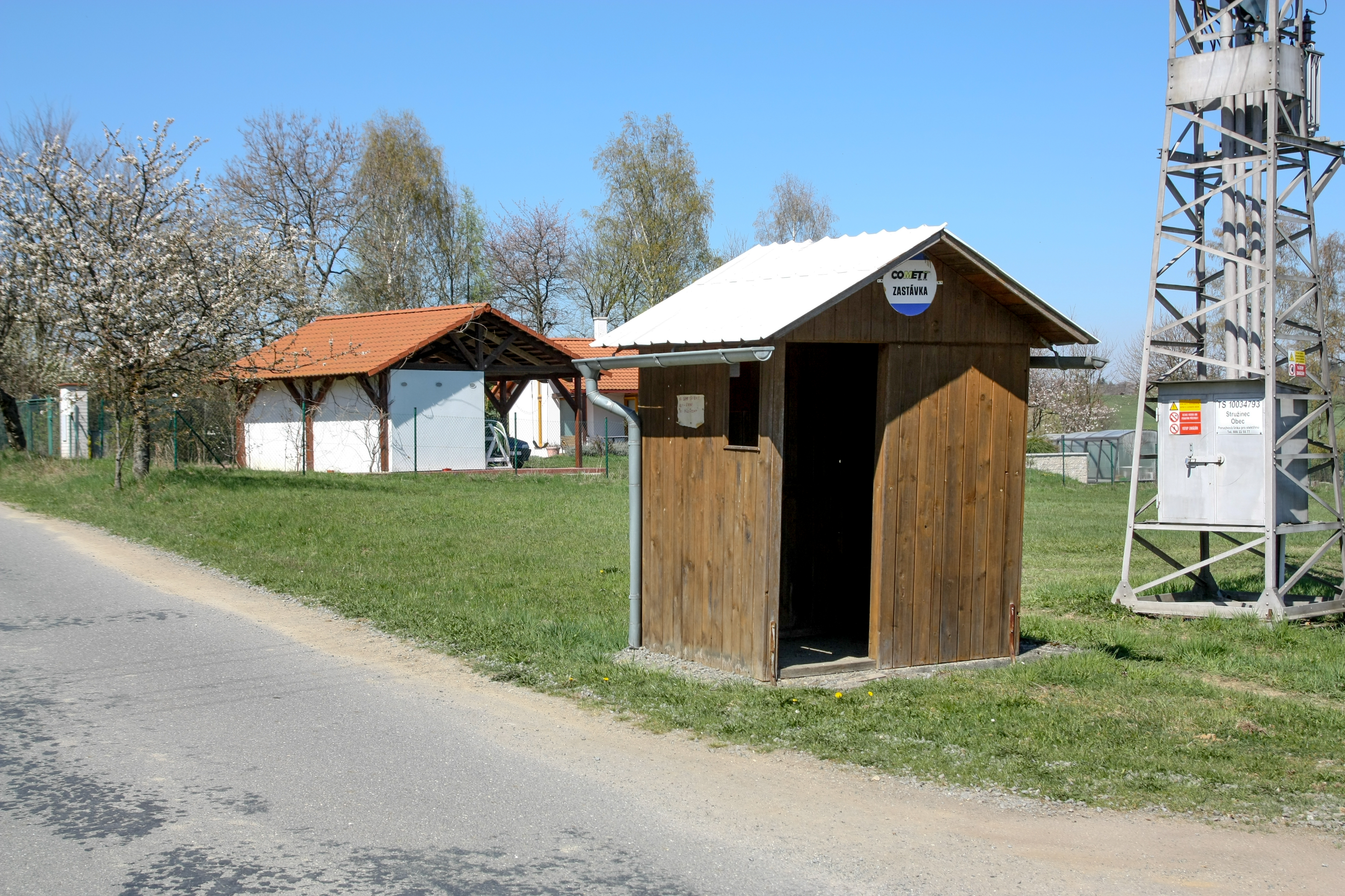 Bus stop in municipality Stružinec, Tábor District, South Bohemian Region, Czechia